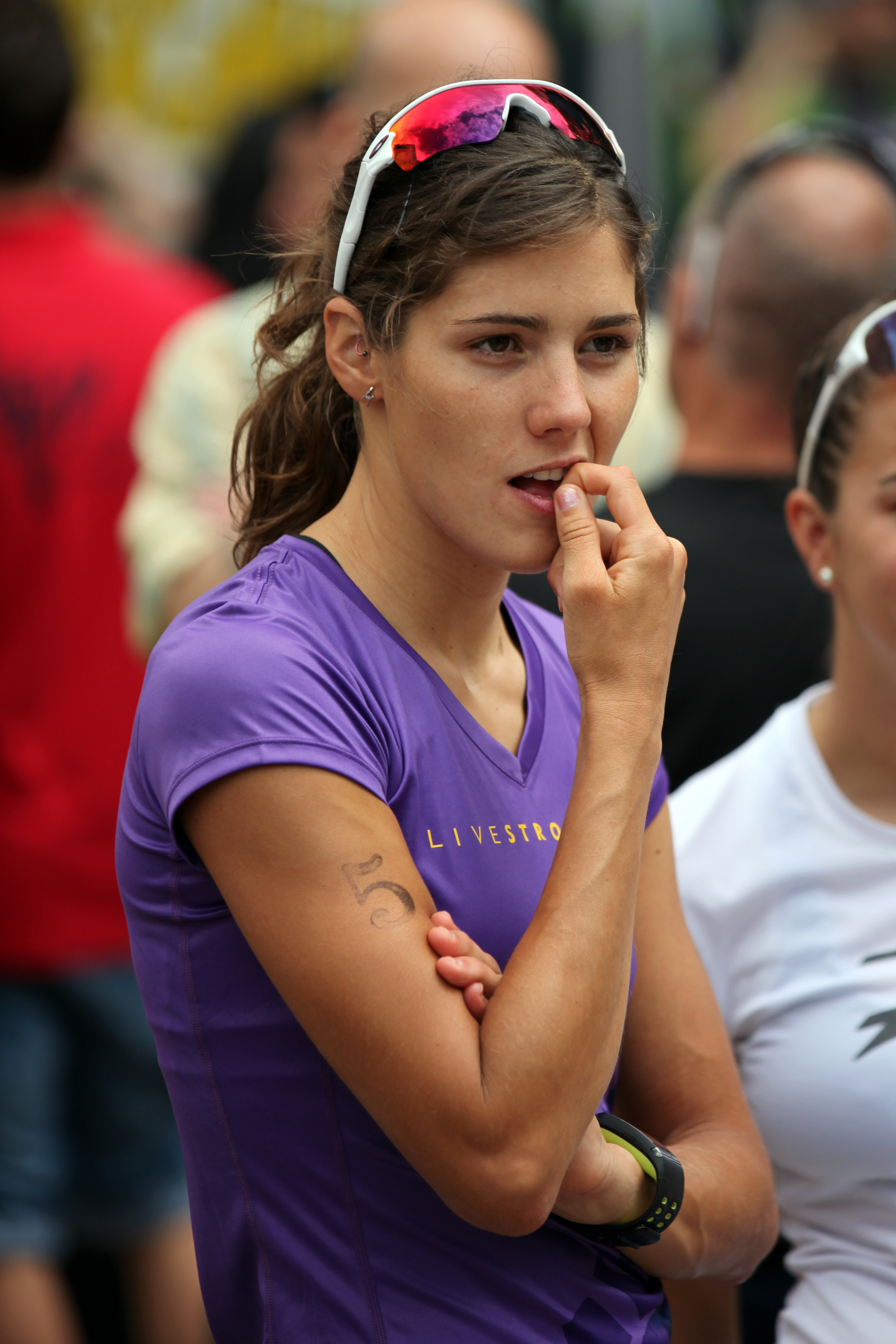 Carolina Routier at (or rather, after) the Triathlon Sprint World Cup in Cremona